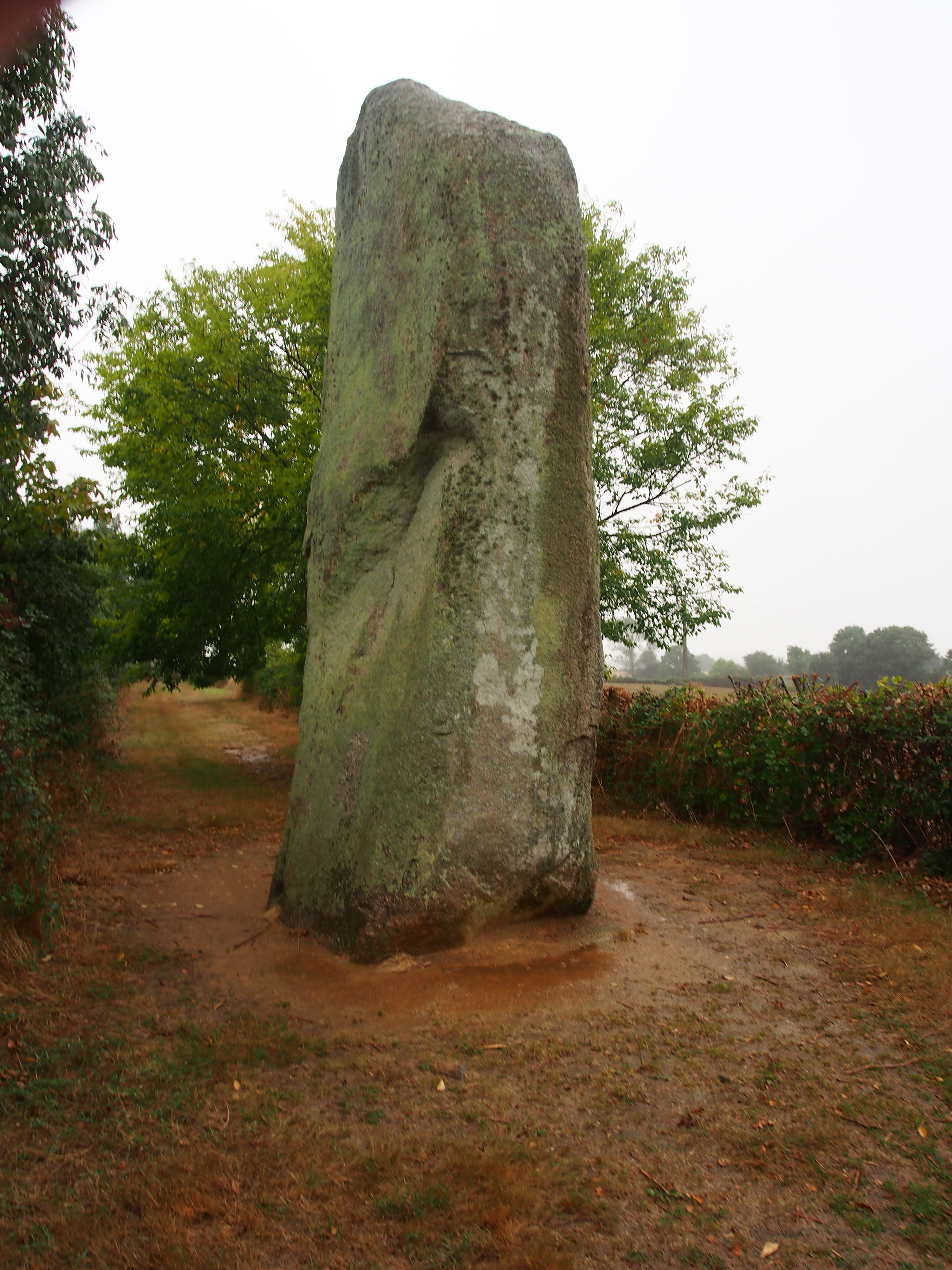 Photographed in France.